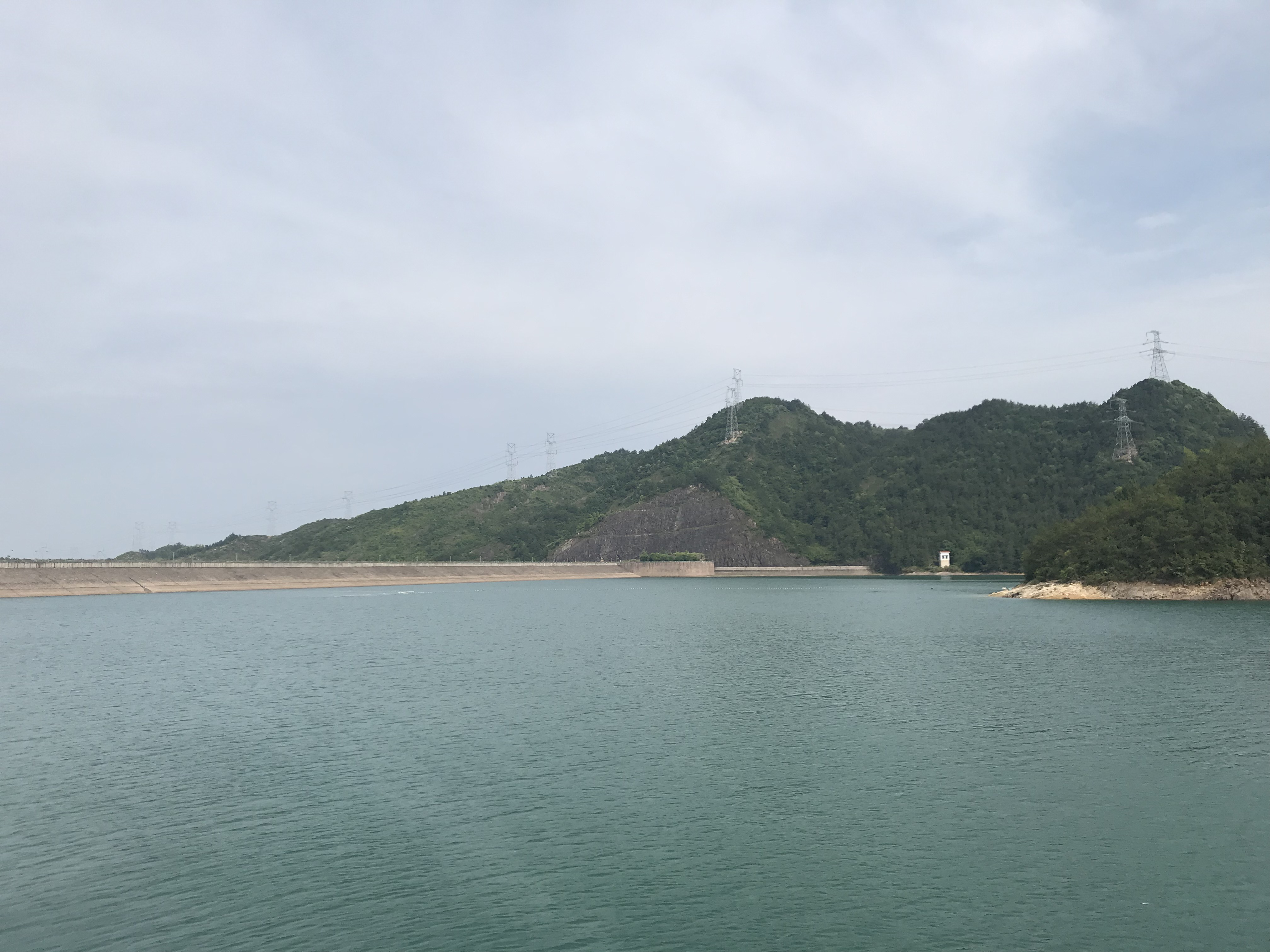 201805 Jinlan Reservoir from Dongxikeng Pier（东西坑渡口）